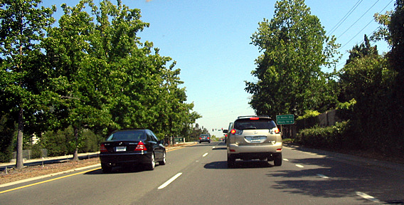 Santa Clara County Route G5 (Foothill Expressway), southbound approaching the intersection with El Monte Road in Los Altos.